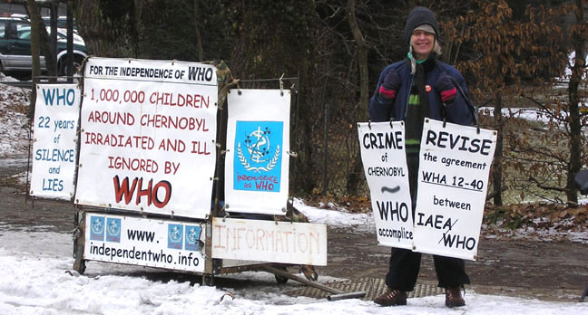 Demonstration from Independent WHO near WHO in Geneva to ask for the amendement of the WHO-IAEA agreement.